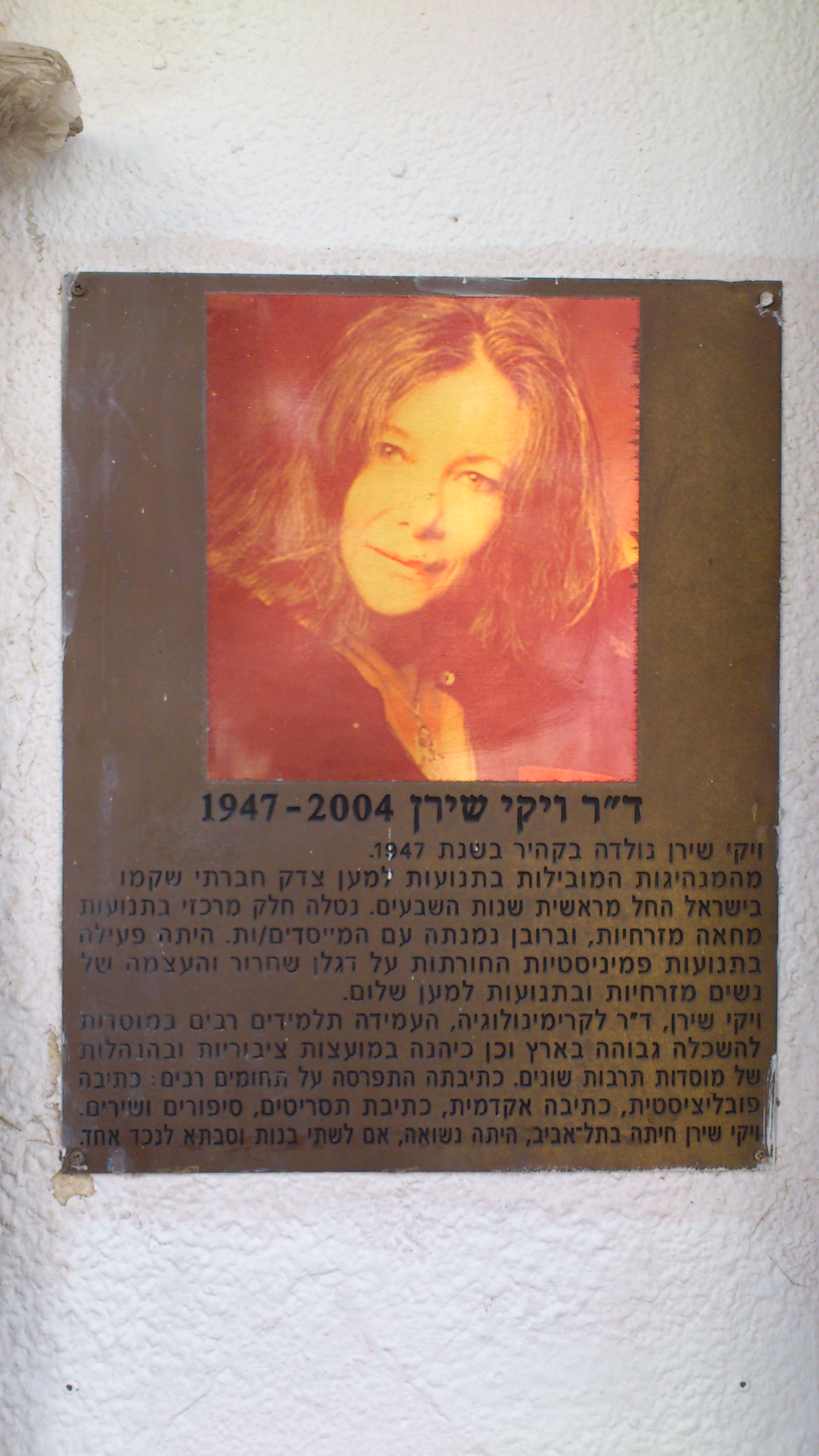 Vicki Shiran